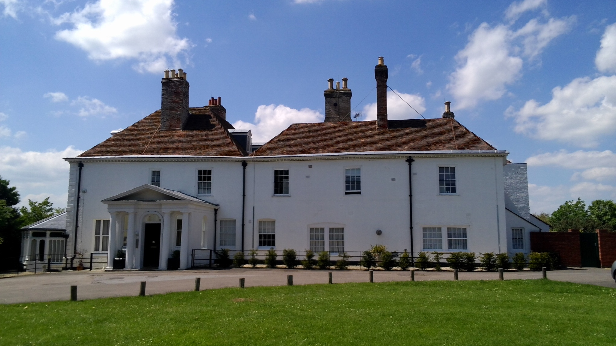 This house stands in the corner of the King George's Field (part of the former Mount Field) on London Road, Ospringe, Faversham, Kent, England. It looks like it ought to have some history but all I can find is this estate agent's page which tells us that it is divided into 16 flats.